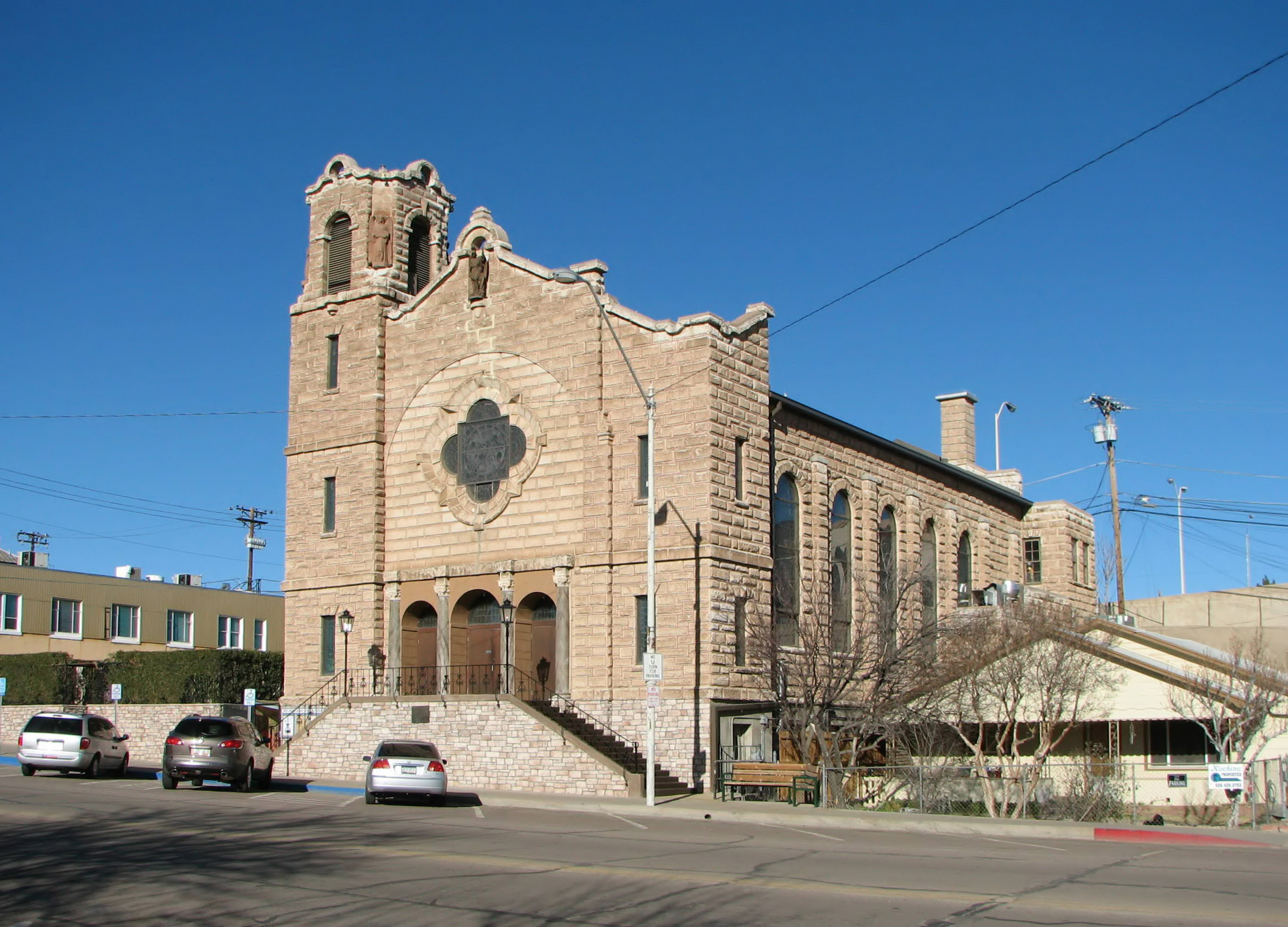 Holy Angels Catholic Church, Globe, Arizona, USA